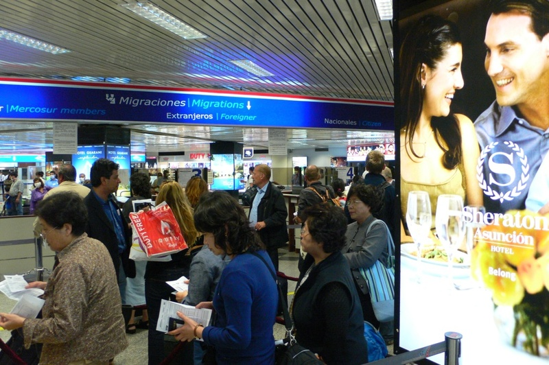 Control de pasaportes del Aeropuerto Silvio Pettirossi, diviendo a los pasajeros en tres categorías: Ciudadanos Mercosur, Extranjeros y Nacionales del Paraguay